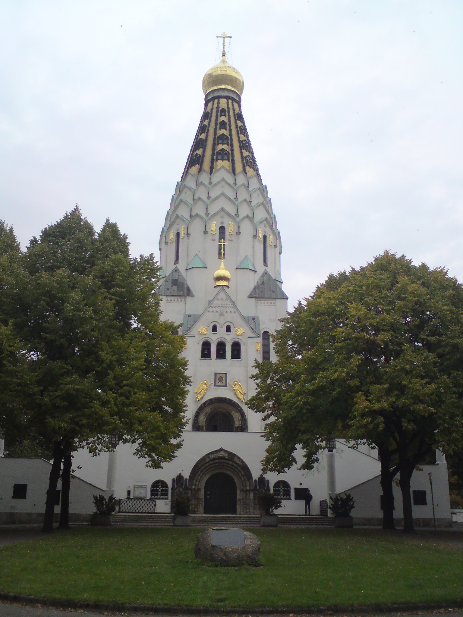 russian_church_in_leipzig